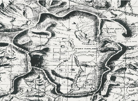 Historic 1869 Map of San Luis Parc of Colorado and Northern New Mexico by Brayer W. Blackmore. "Sawatch Lake" at the east of the San Luis Valley is the closed basin play systems. The Blanca Wetlands are at the south end of the lake.